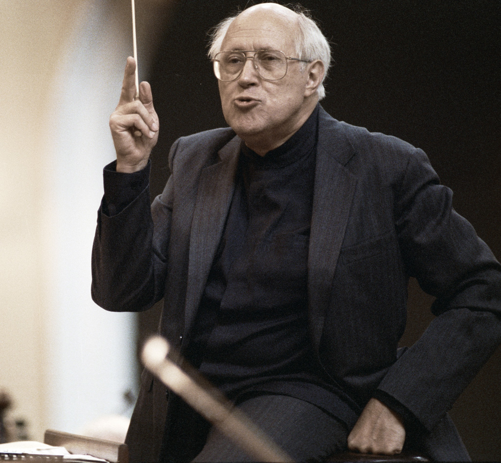 “US National Symphony Orchestra conductor Mstislav Rostropovich”. US National Symphony Orchestra conductor Mstislav Rostropovich